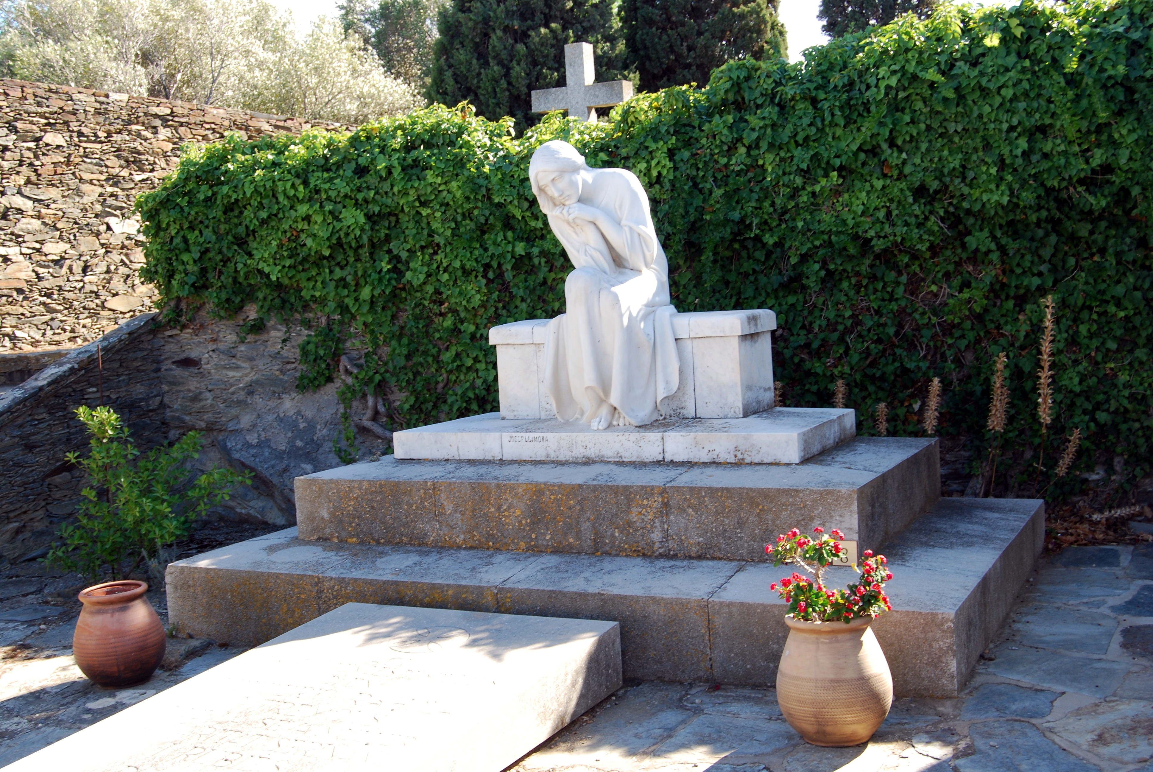 Frederic Rahola i Trèmols's tomb at Portlligat's cemetery.